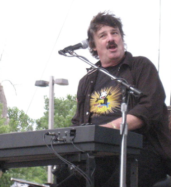 Burton Cummings at the wee-klong Common Ground music festival in Lansing Michigan on Tuesday, July 12, 2011.